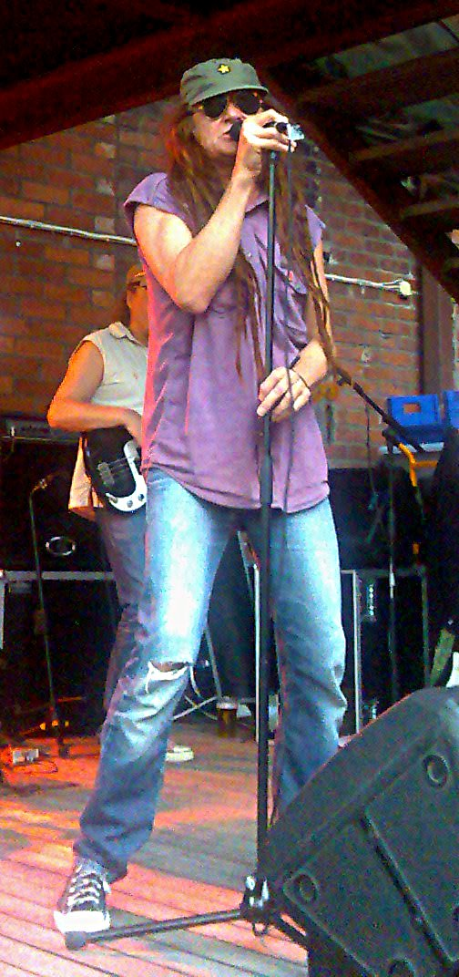 Picture of Pelle Miljoona on Falls Pub / Restaurant on Tammerkosken sillalla event on 4th of July 2007